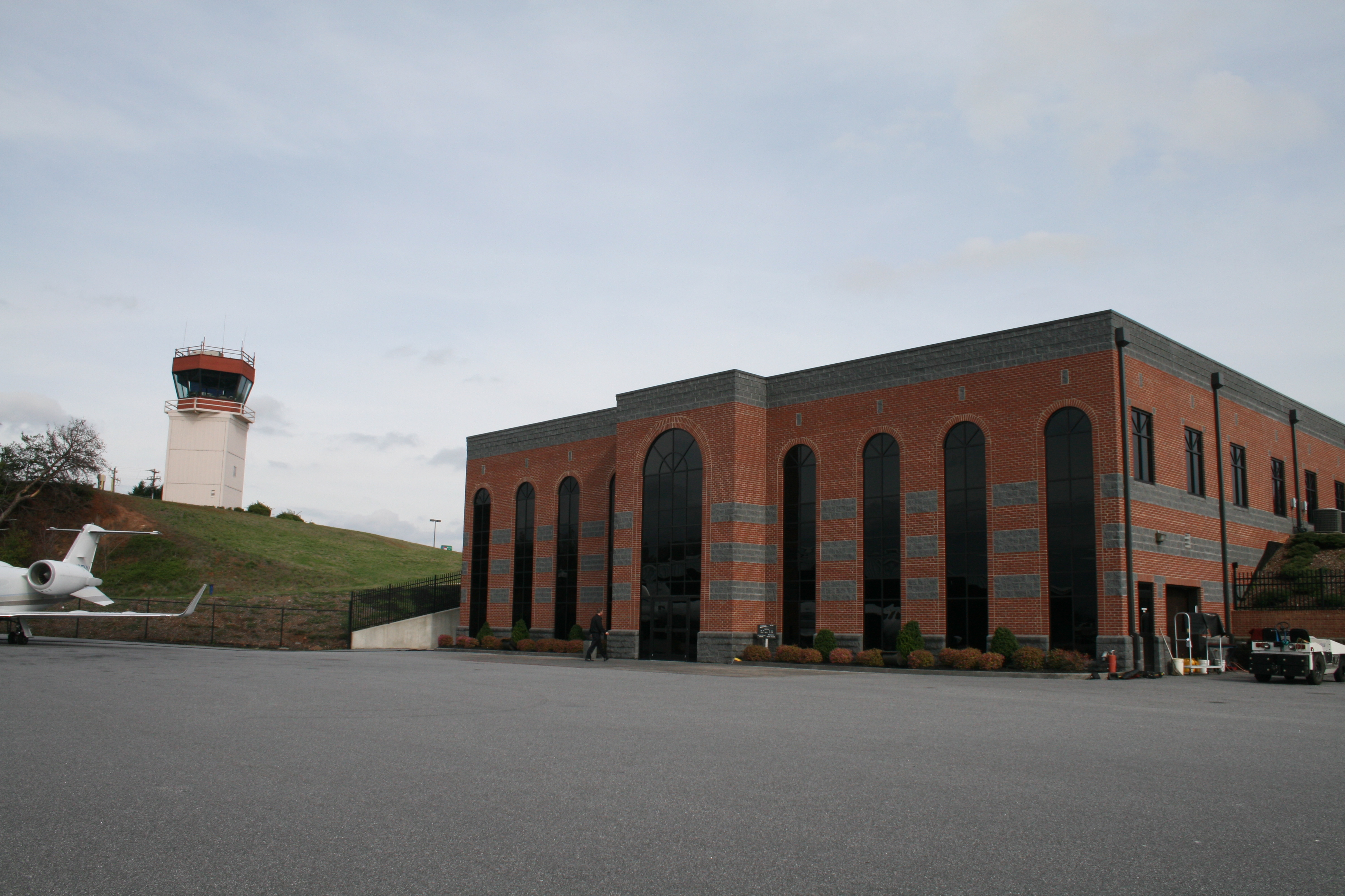 The fixed base operation building and control tower at the Hickory Regional Airport as seen from the north aviation ramp. The control tower was built in 1973 and is currently an FAA contract tower. The FBO building is a 2 story, split level structure with public facilities on the lower, ramp level. Offices and a meeting room occupy the upper level which is also access to the vehicle parking area.